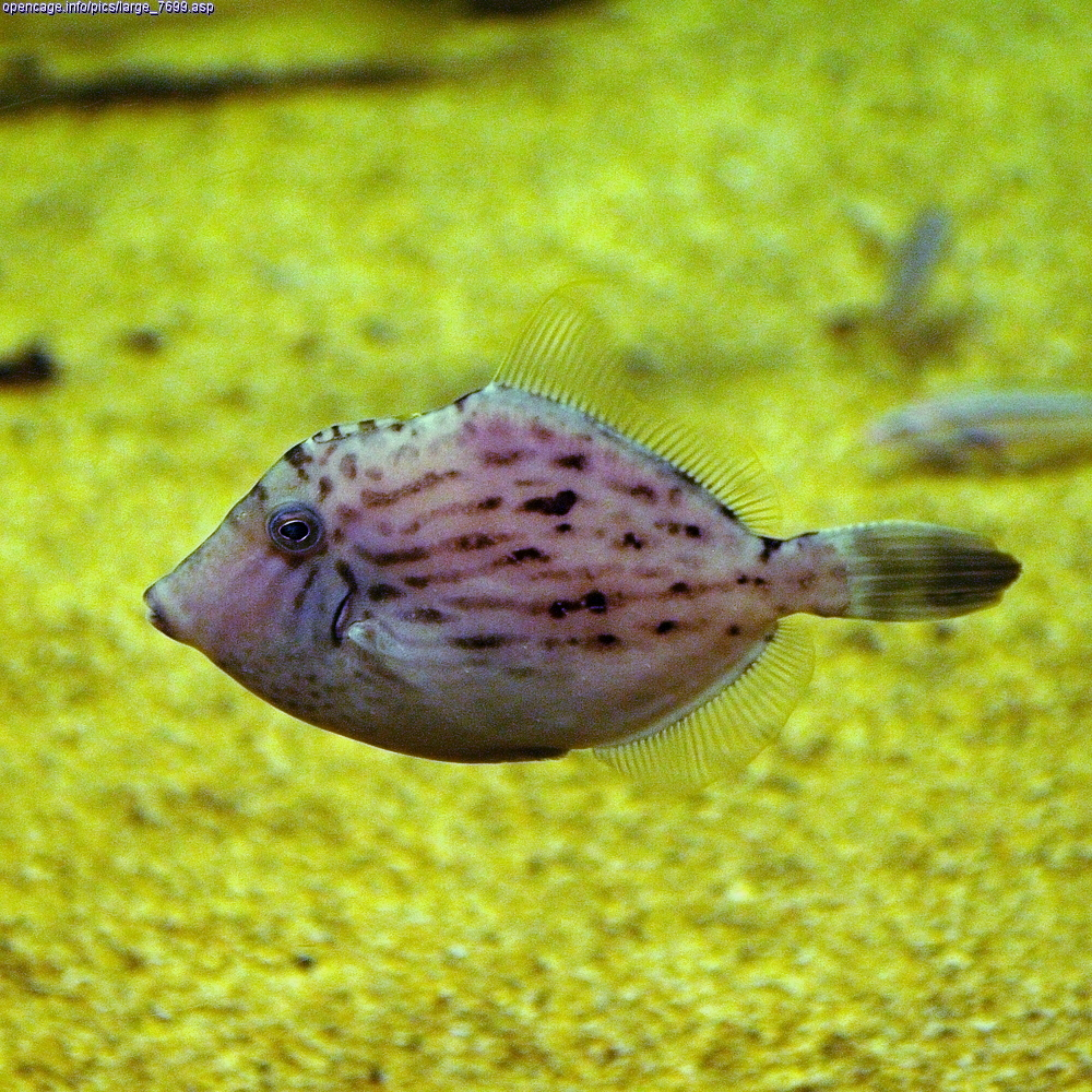 カワハギ Thread-sail filefish Species Stephanolepis cirrhifer Familia Monacanthidae Location Suma Aqualife Park, japan Other photos; NCBI Taxonomy ID:143348 Copyright OpenCage